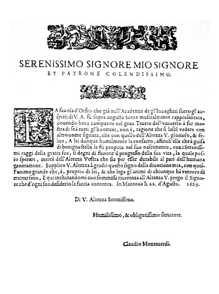 Dedication page from the score of Claudio Monteverdi's 1609 opera L'Orfeo; Published in Venice in 1609 by Ricciardo Amadino